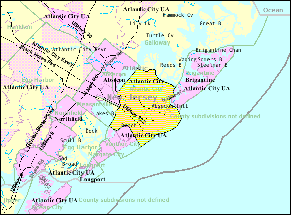 U.S. Census 2000 reference map for Atlantic City, New Jersey